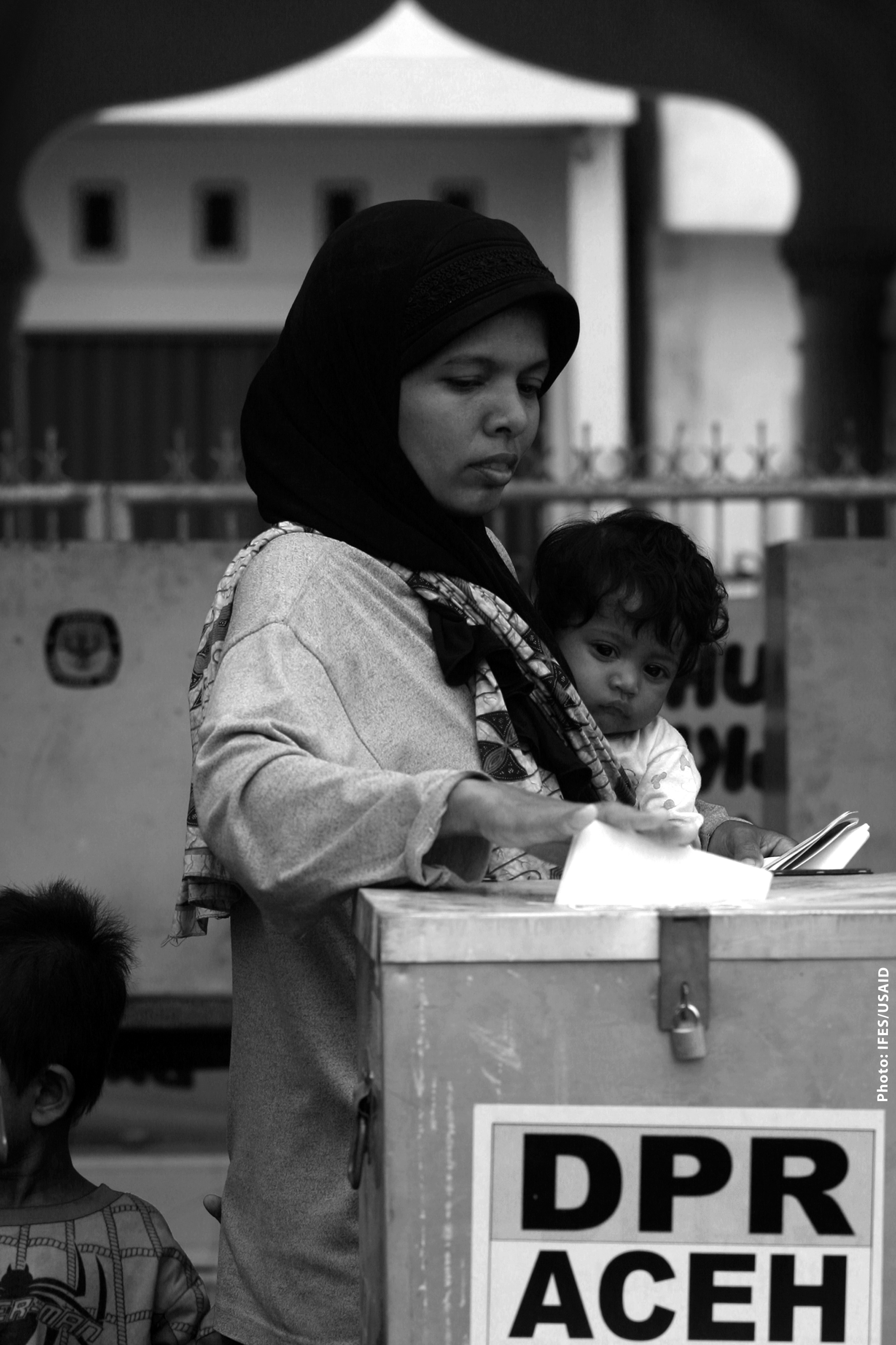 USAID/IFES photo with no caption